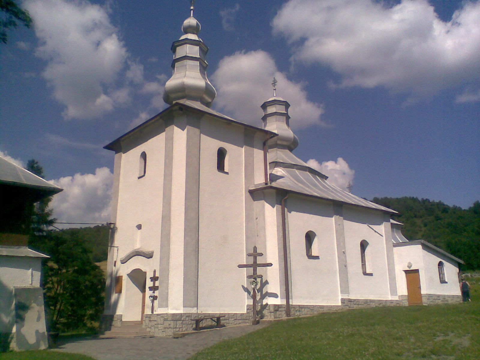 Church in Ňagov (Slovakia)